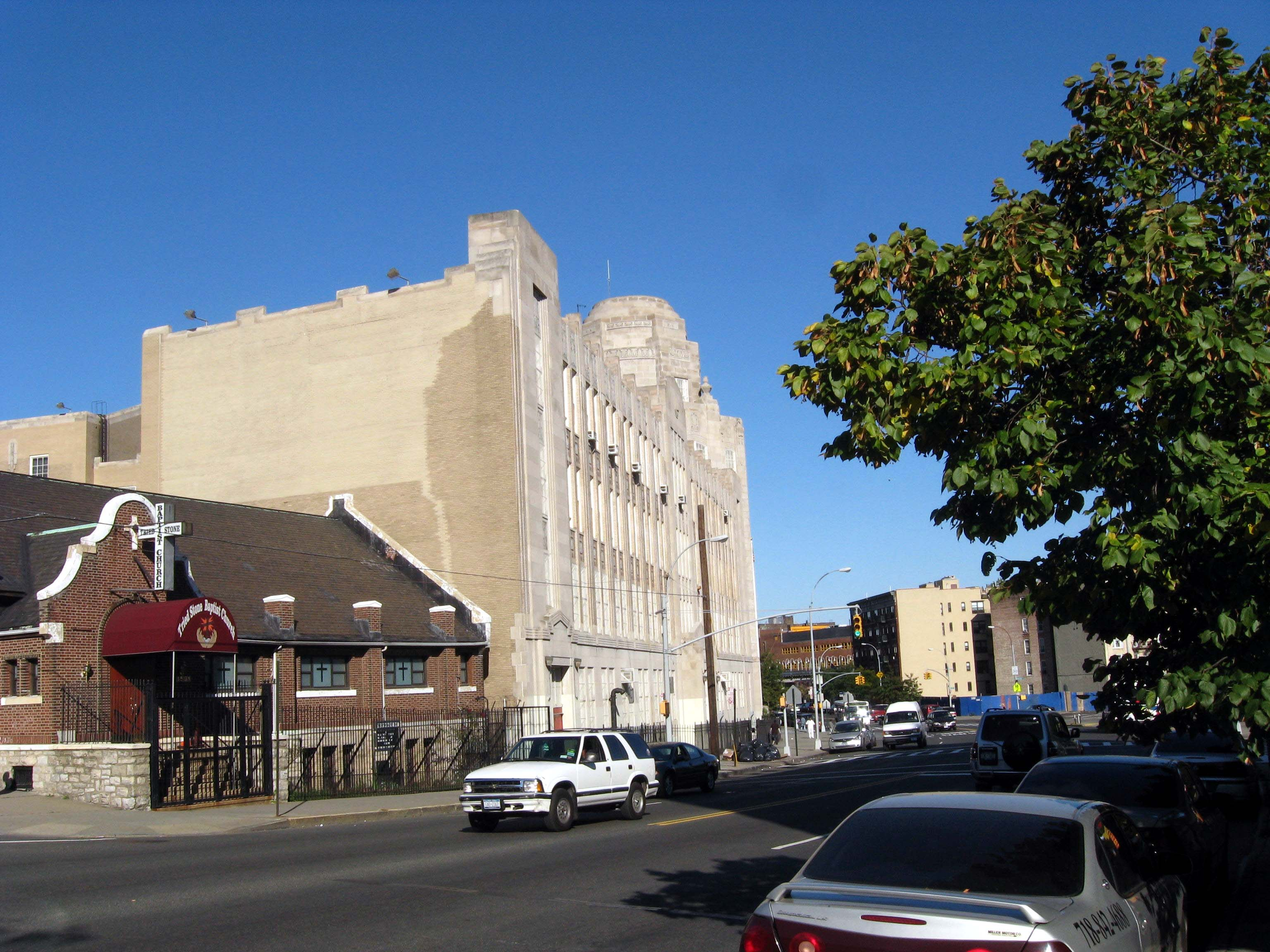 Boston Road descends east past Suburban Place and curves north towards West Farms Square and eventually Williamsbridge, Bronx on a sunny midday